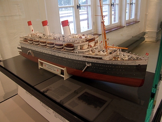 Model of the „Cap Arcona“ in the exhibition of the museum in the memorial at the former concentration camp Neuengamme. The model in the scale 1:250 was made by the Polish historian Marcin Owsinski.